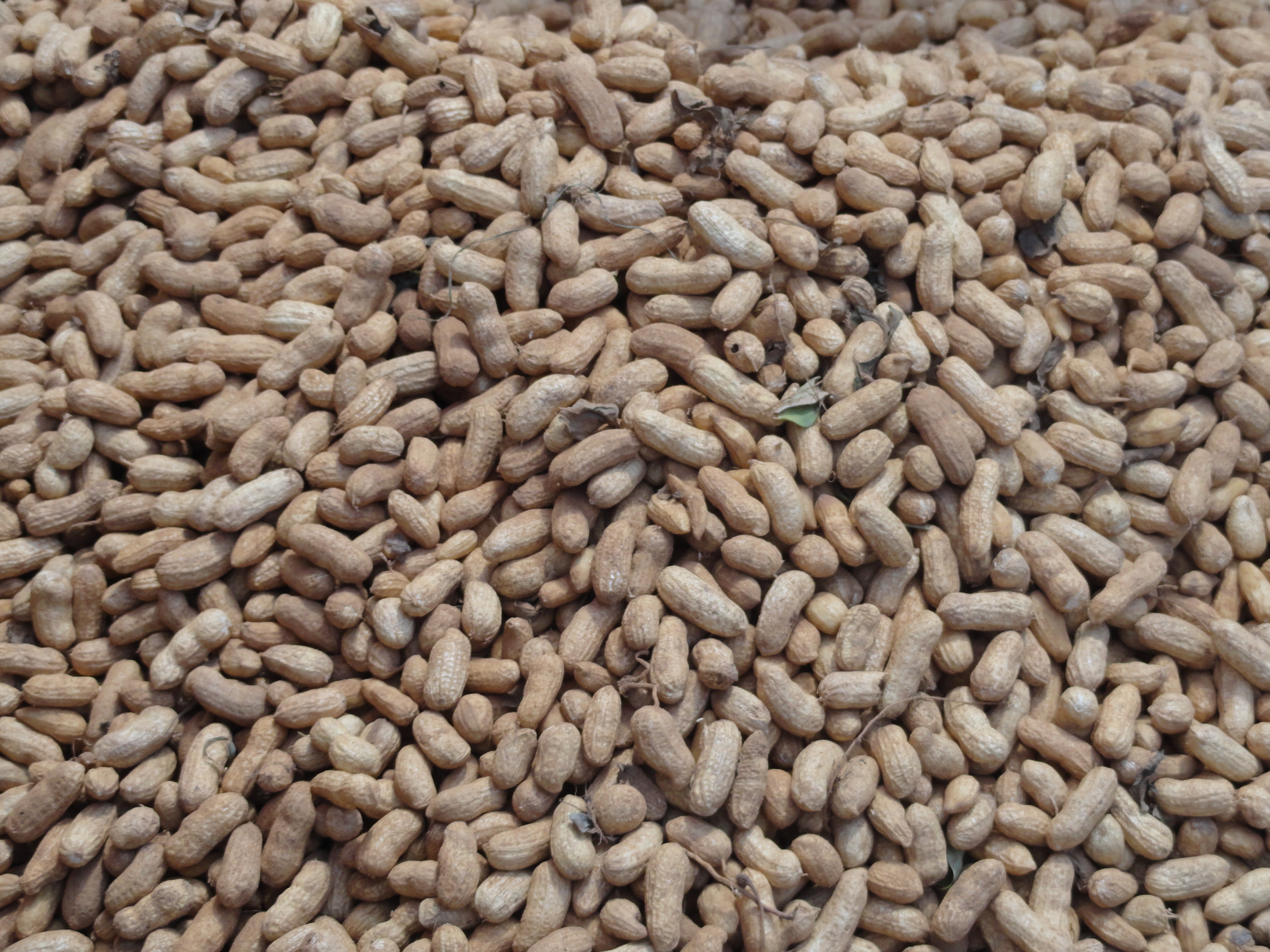 ground nut